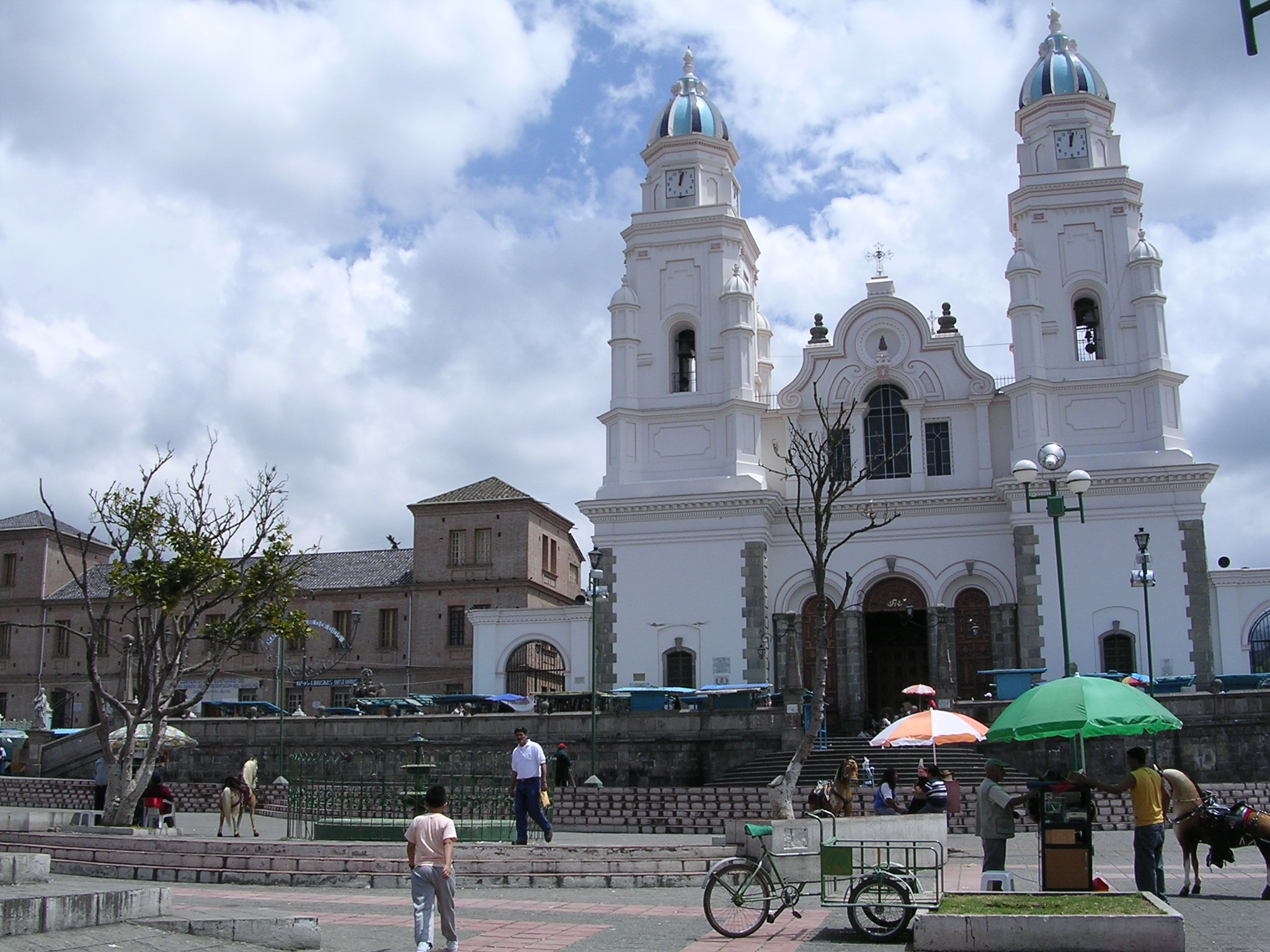 Santuario del Quinche (Sanctuary of Quinche), pilgrimage site in Ecuador, some 30 km west of Quito, near Guayllabamba.